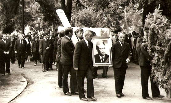 Funeralii Petru Enache, cimitirul din Roman, 16 august 1987